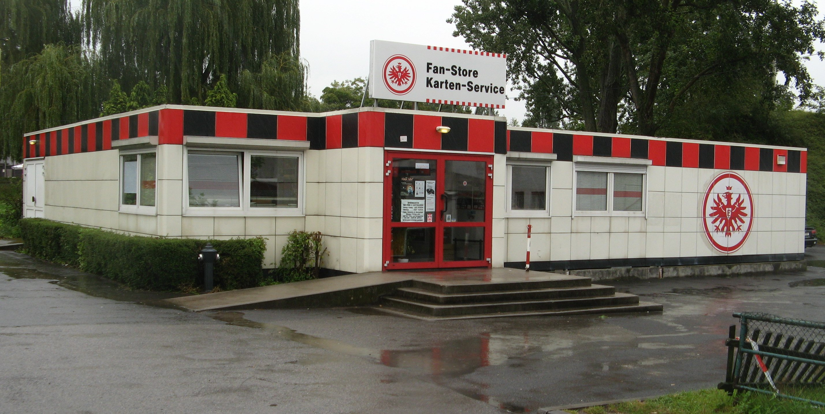 Fan store and ticket center near sports ground Stadium at Riederwald of Eintracht Frankfurt in the borrough of Seckbach in Frankfurt, Hesse, Germany